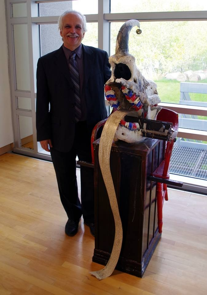 View of Terry Graff with Edward Kienholz sculpture.